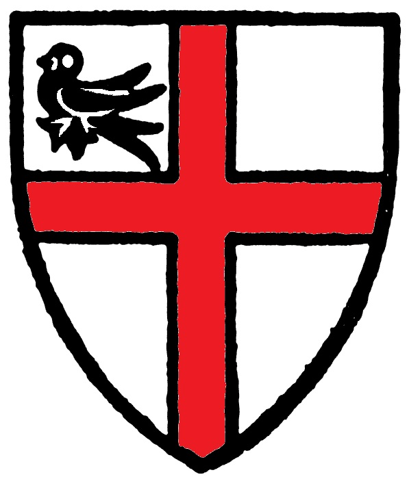 Coat of arms of Andrew Harclay, 1st Earl of Carlisle. The arms of St. George (argent, a cross gules) with a martlet sable in the quarter.